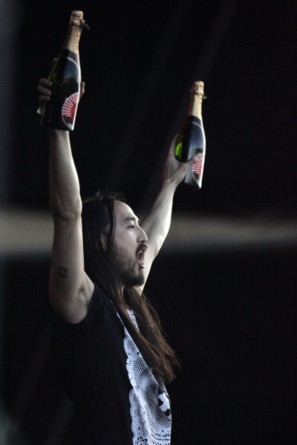 Future Music Festival, Randwick, Sydney, Australia...